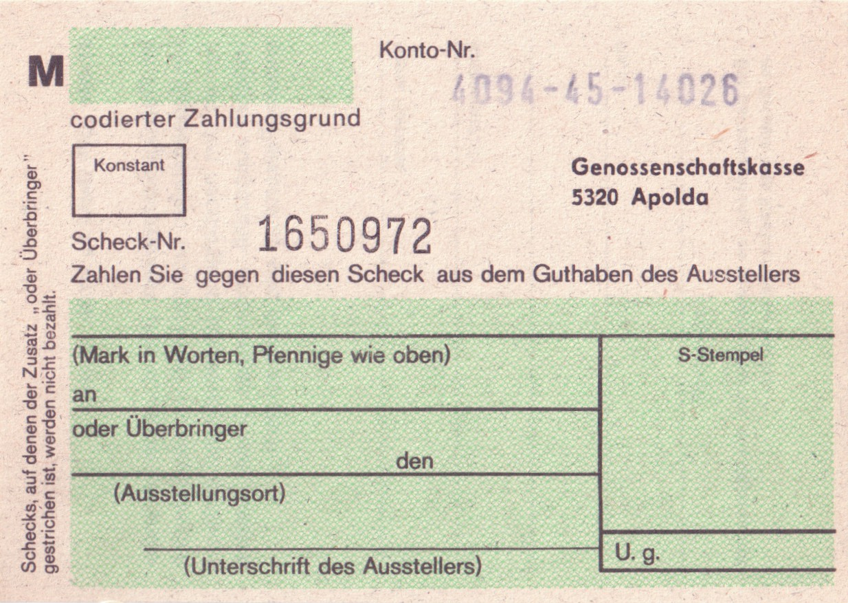 Cheque, East Germany, 1988